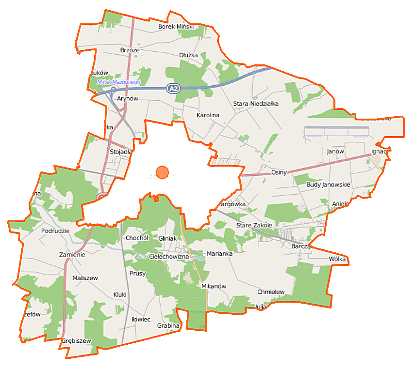 Map of Gmina Mińsk Mazowiecki, Poland This map of Mińsk Mazowiecki (gmina wiejska) was created from OpenStreetMap project data, collected by the community. This map may be incomplete, and may contain errors. Don't rely solely on it for navigation. Border coordinates52.240021.4659←↕→21.700752.1116